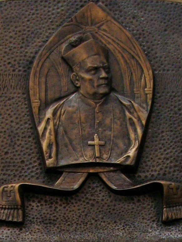 Plaque to bishop Lech Kaczmarek at the Oliwa Cathedral in Gdańsk.